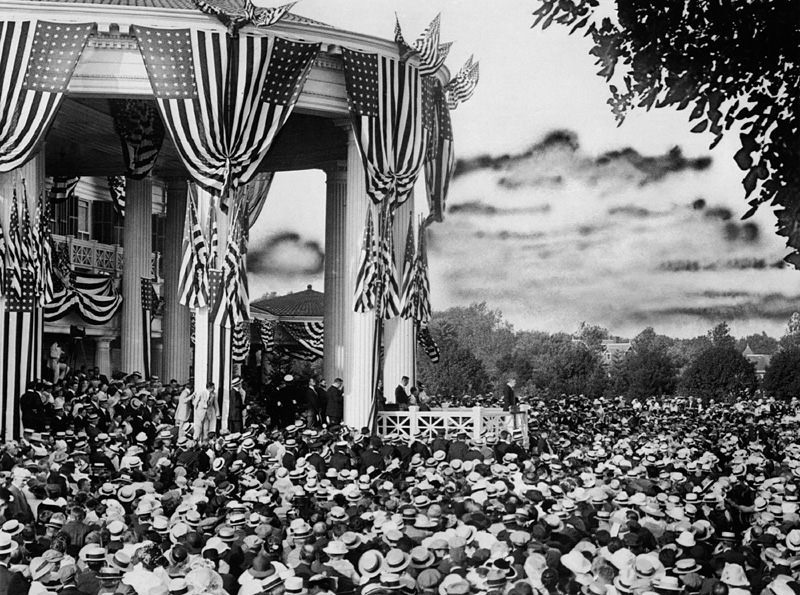 Woodrow Wilson accepts the Democratic Party nomination at his summer home in Long Branch, New Jersey, 1916.